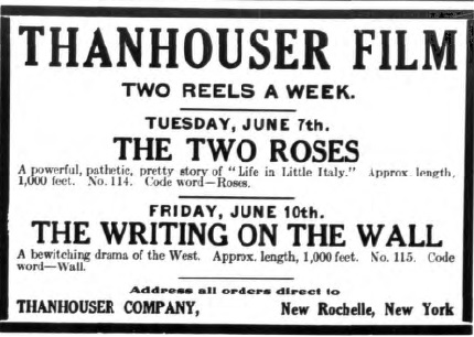 An advertisement for The Two Roses and The Writing on the Wall by the Thanhouser Company in the June 11, 1910 edition of Billboard magazine.